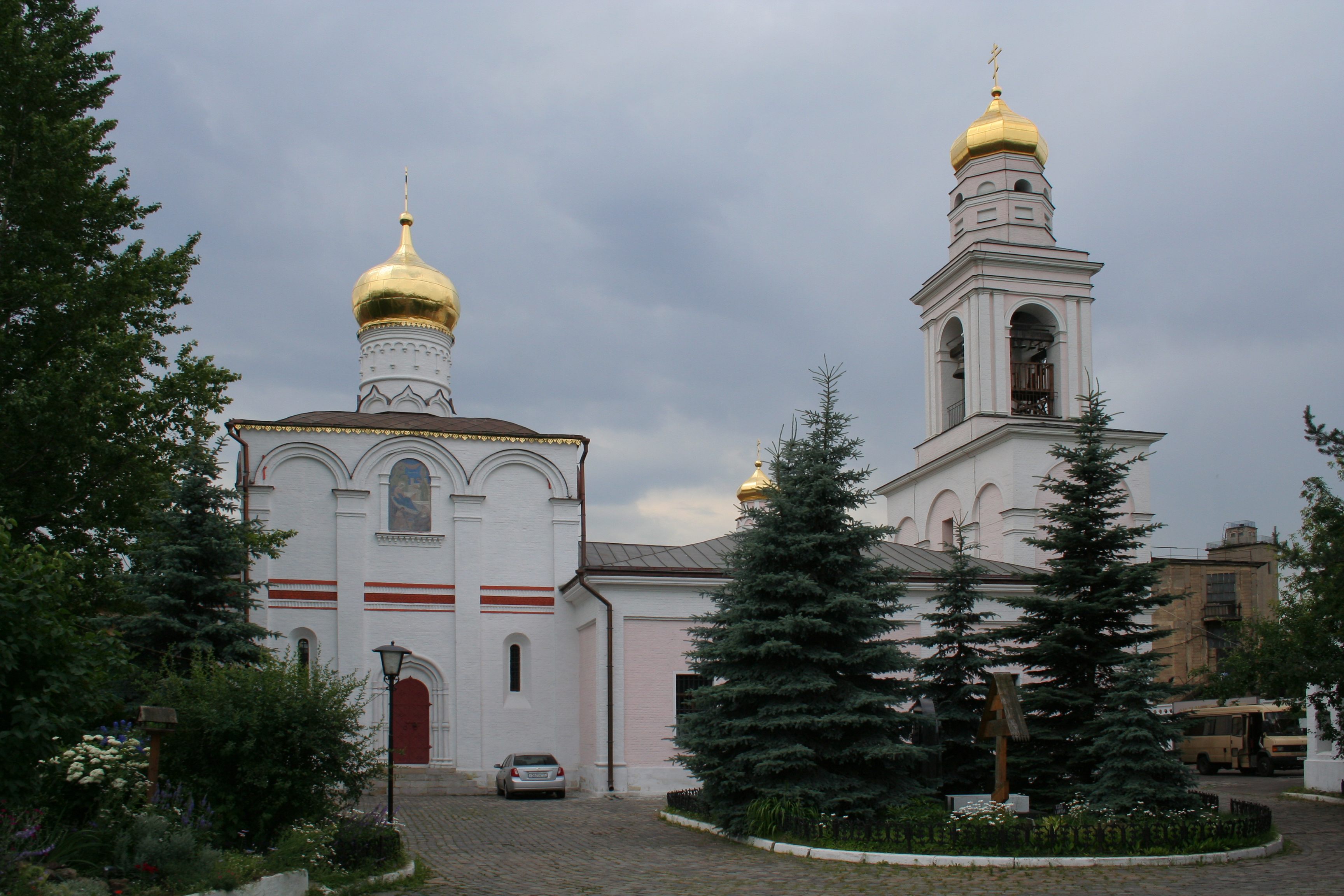 Church of Nativity of Theotokos in Old Simonovo, Moscow.